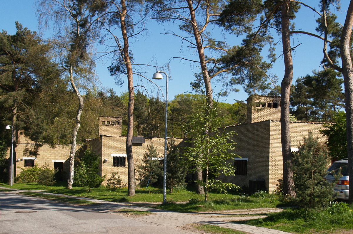 Hauses with the name Romerhusene in Helsingør (Helsinore), Denmark designed by Danish architect Jørn Utzon